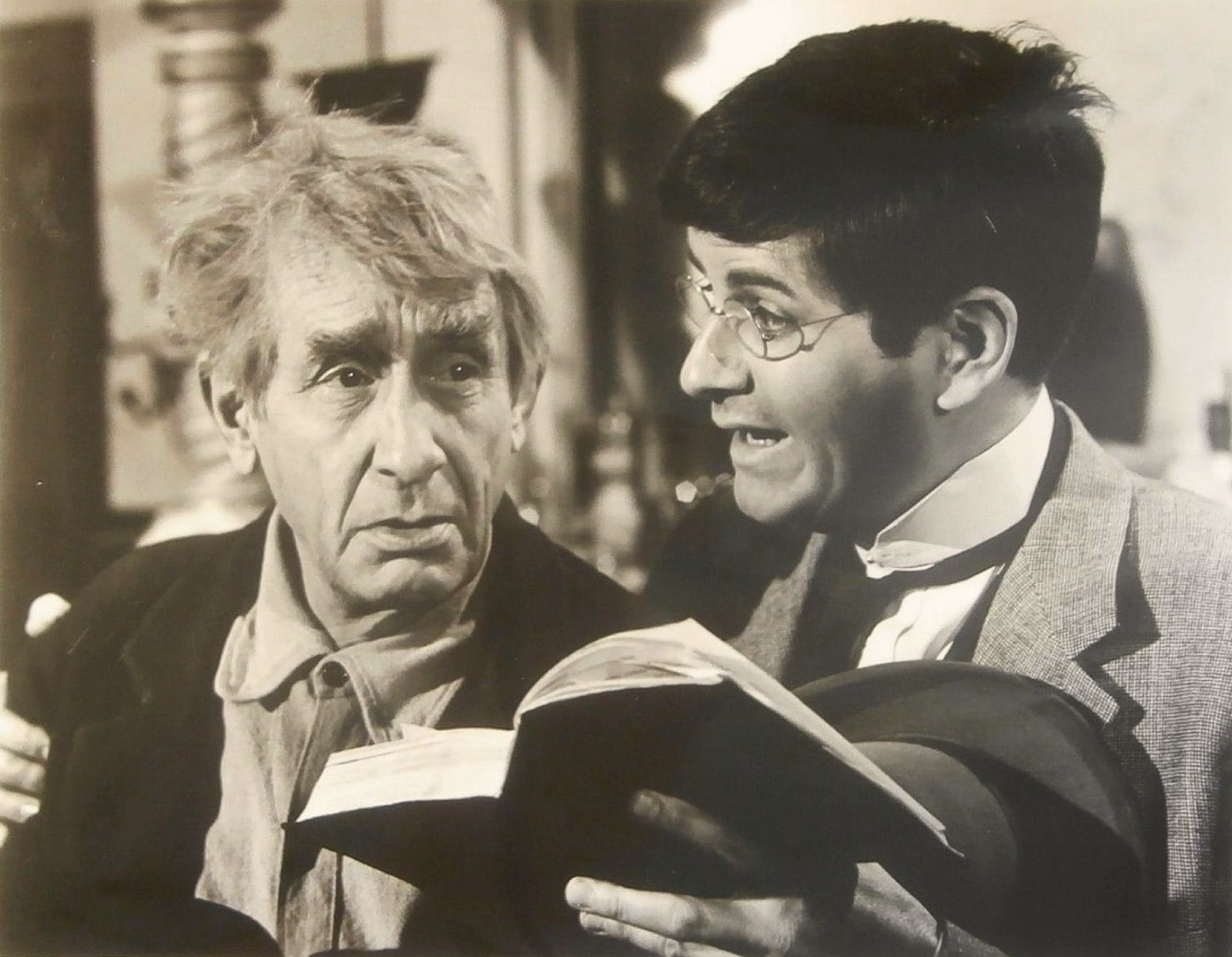 Victor Jory (left) & Linden Chiles in the TV series The Virginian, Season 4, Episode 25 The Return of Golden Tom - publicity still (cropped)